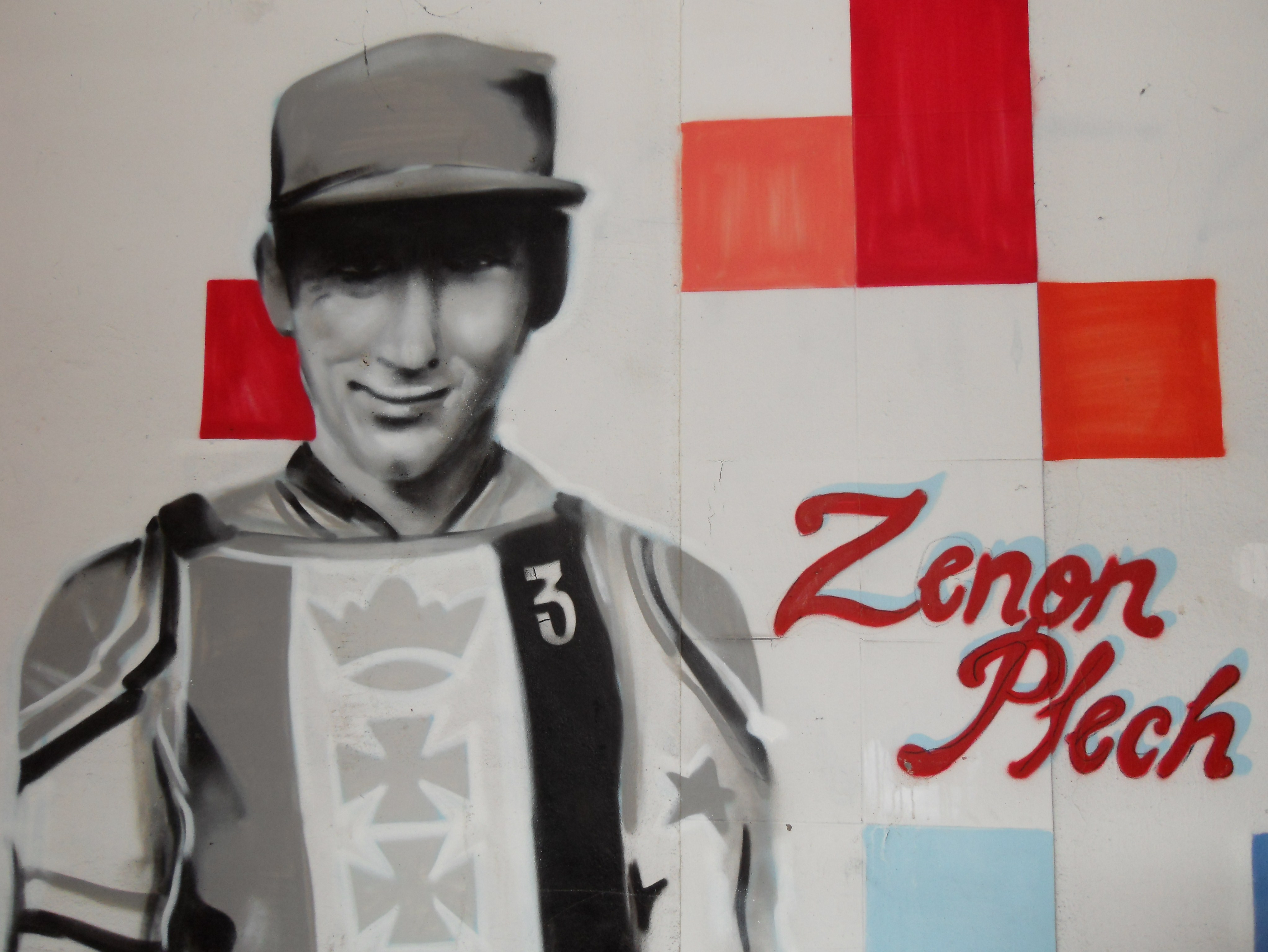 Zenon Plech (a speedway rider from Poland). A mural in Gdańsk (Poland).